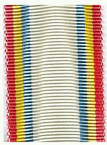 Band zum Erinnerungsmedaille für die Teilnehmer an der Afrika-Expedition 1907-1908 Mecklenburg-Schwerin